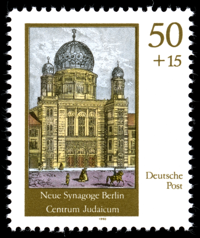 Ausgabepreis: 50+15 Pfennig First Day of Issue / Erstausgabetag: 18. September 1990 Auflage: 4.000.000 Entwurf: Lenz Druckverfahren: Offsetdruck Michel-Katalog-Nr: Ländercode-MiNr: 3359 Licensing This file is most likely NOT in the public domain. It has been marked for review, and will be deleted in due course if the review does not find it to be in the public domain.This file was previously considered to be in the public domain as a German stamp; it is possible that it is in the public domain for other reasons, in which case a new rationale will be applied as part of the review process. See below for the previous rationale. Previous public domain rationale, no longer applicable This stamp is in the public domain in Germany because it was released by the postal administration of the German Democratic Republic or the Soviet occupation zone (Deutschen Post der DDR) whose legal successor is the Federal Republic of Germany. Thus it is an official work according to German copyright law (§ 5 Abs. 1 UrhG).